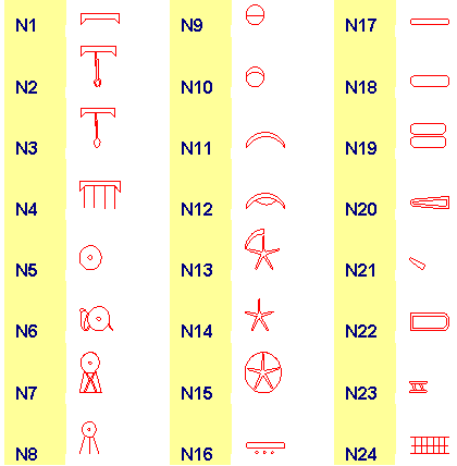 Description: Egyptian hieroglyphs of the Gardiner's list Source: own work Date: October 2005 Author: --Immanuel Giel 08:06, 27 October 2005 (UTC) Other versions: none